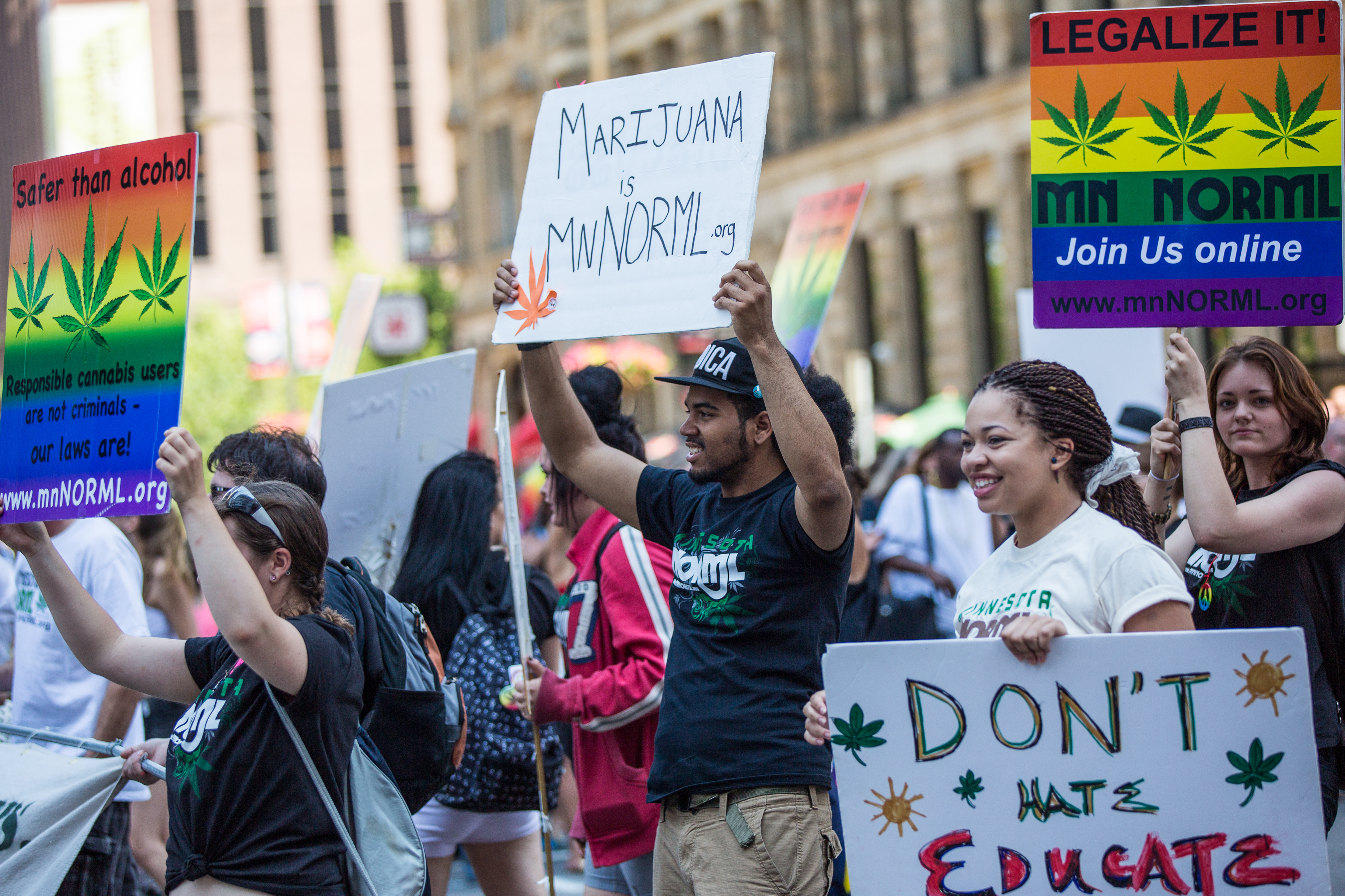 2013 Twin Cities Pride Parade on Hennepin Avenue in Downtown Minneapolis.